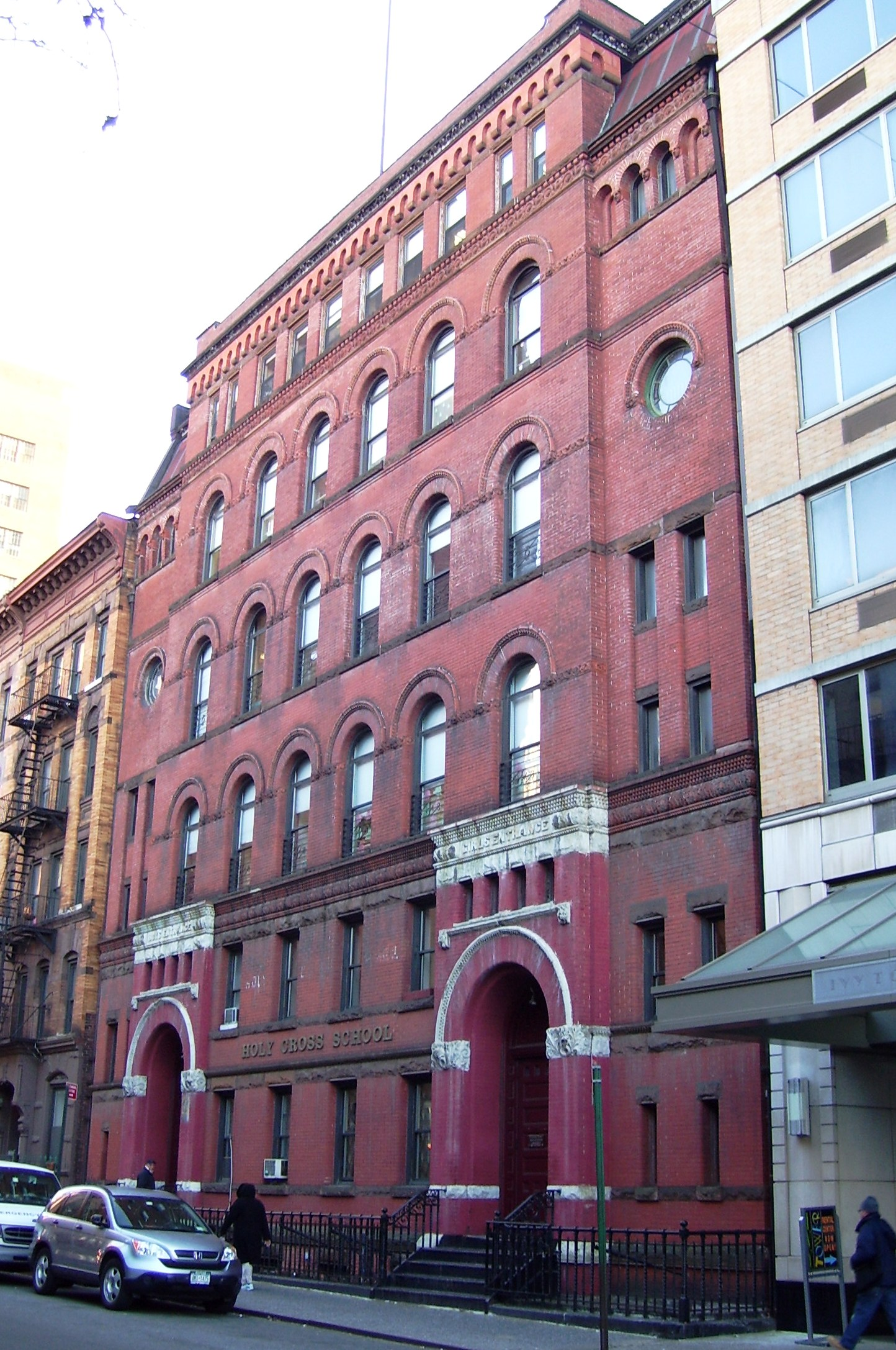 The Holy Cross School, at 332 West 43rd Street, between 8th and 9th Avenues in midtown Manhattan, New York City, was built in 1887 in the Romanesque Revival style, and was designed by Lawrence J. O'Connor.